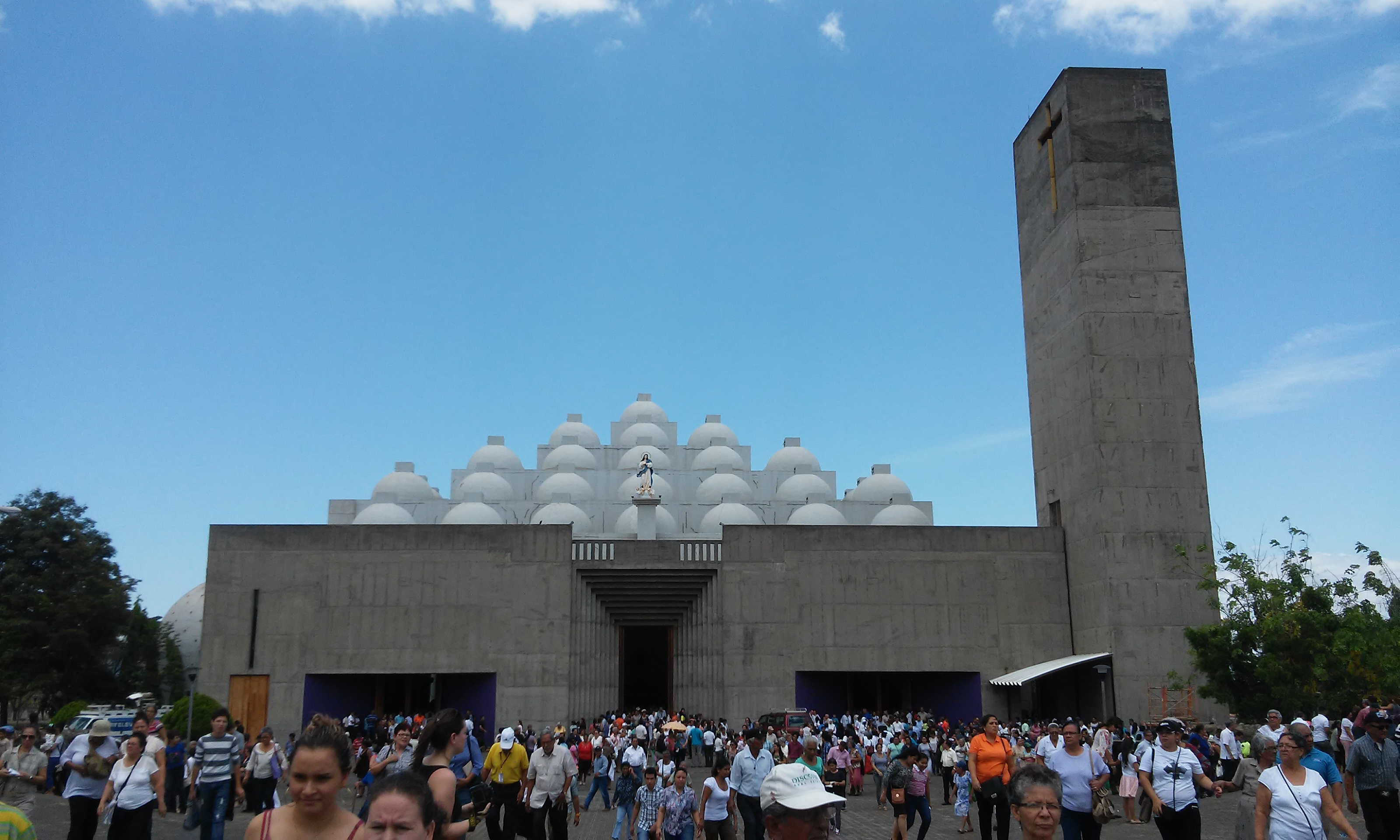 The Managua Cathedral façade on Holy Thursday in 2017